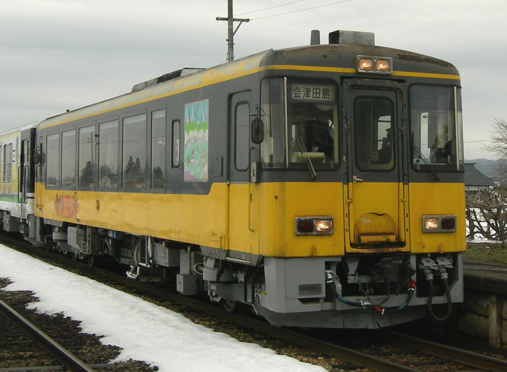 Aizu Railway AT-100 Type Diesel Car.